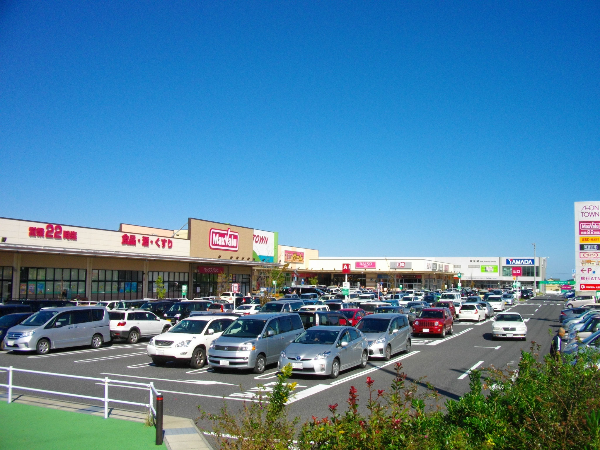 AEON Town Kisarazu-Jozai